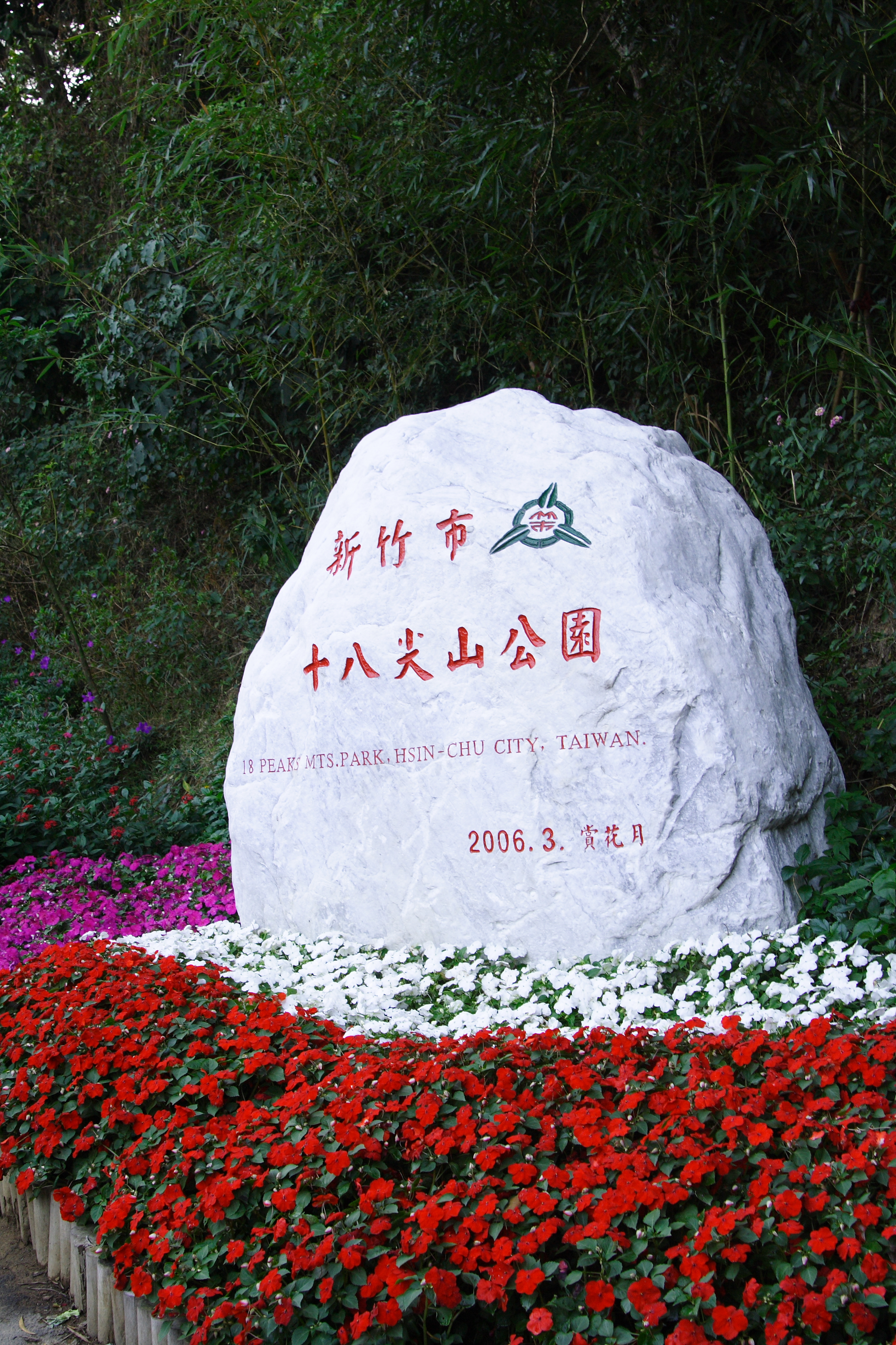 A tombstone of 18 Peaks Mts. Park, Hsinchu City.